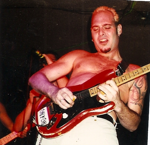 Anthony Gallo playing Guitar at Roxy